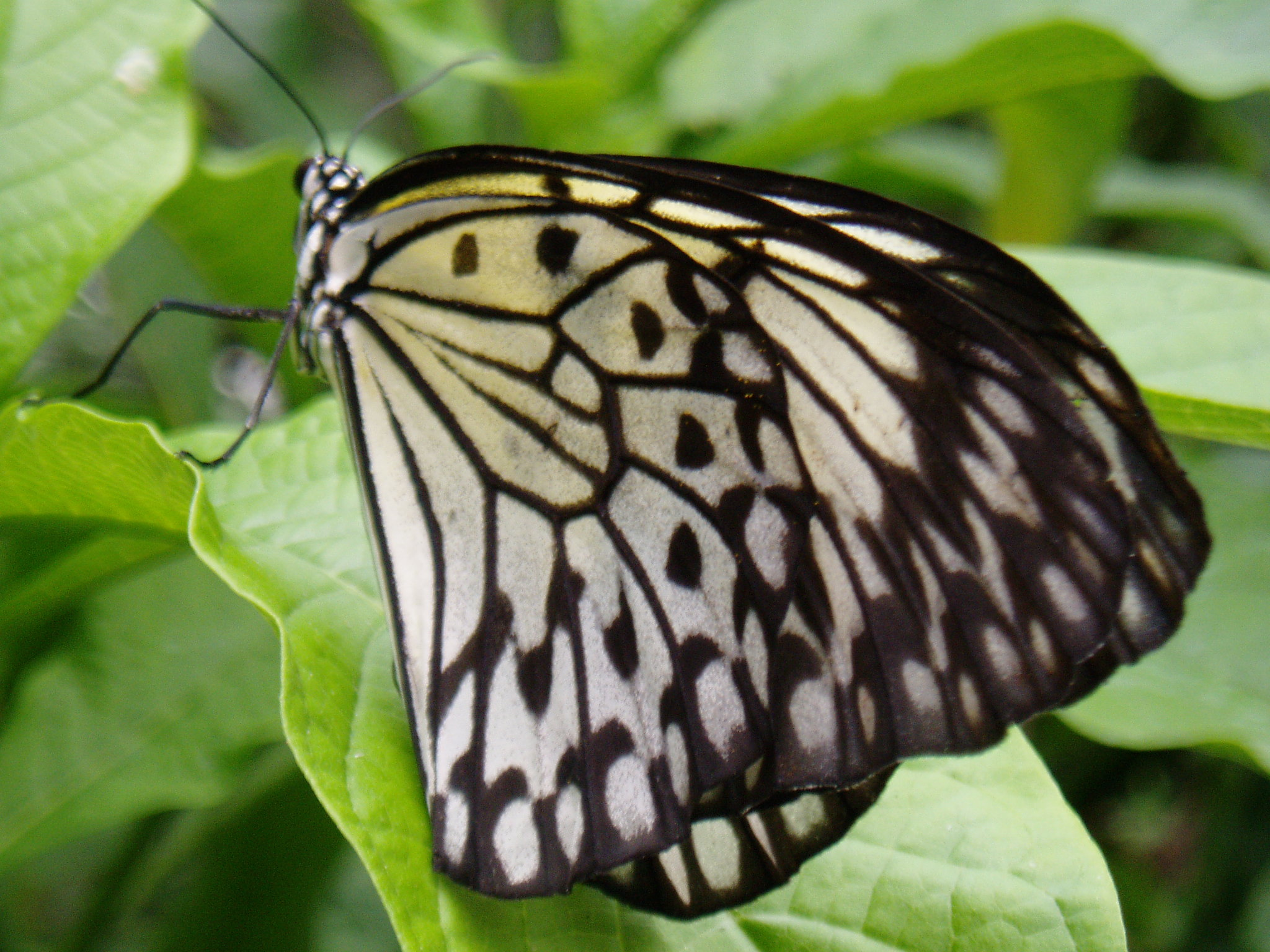 Image taken at Butterfly World idea leuconoe Paper Kite butterfly